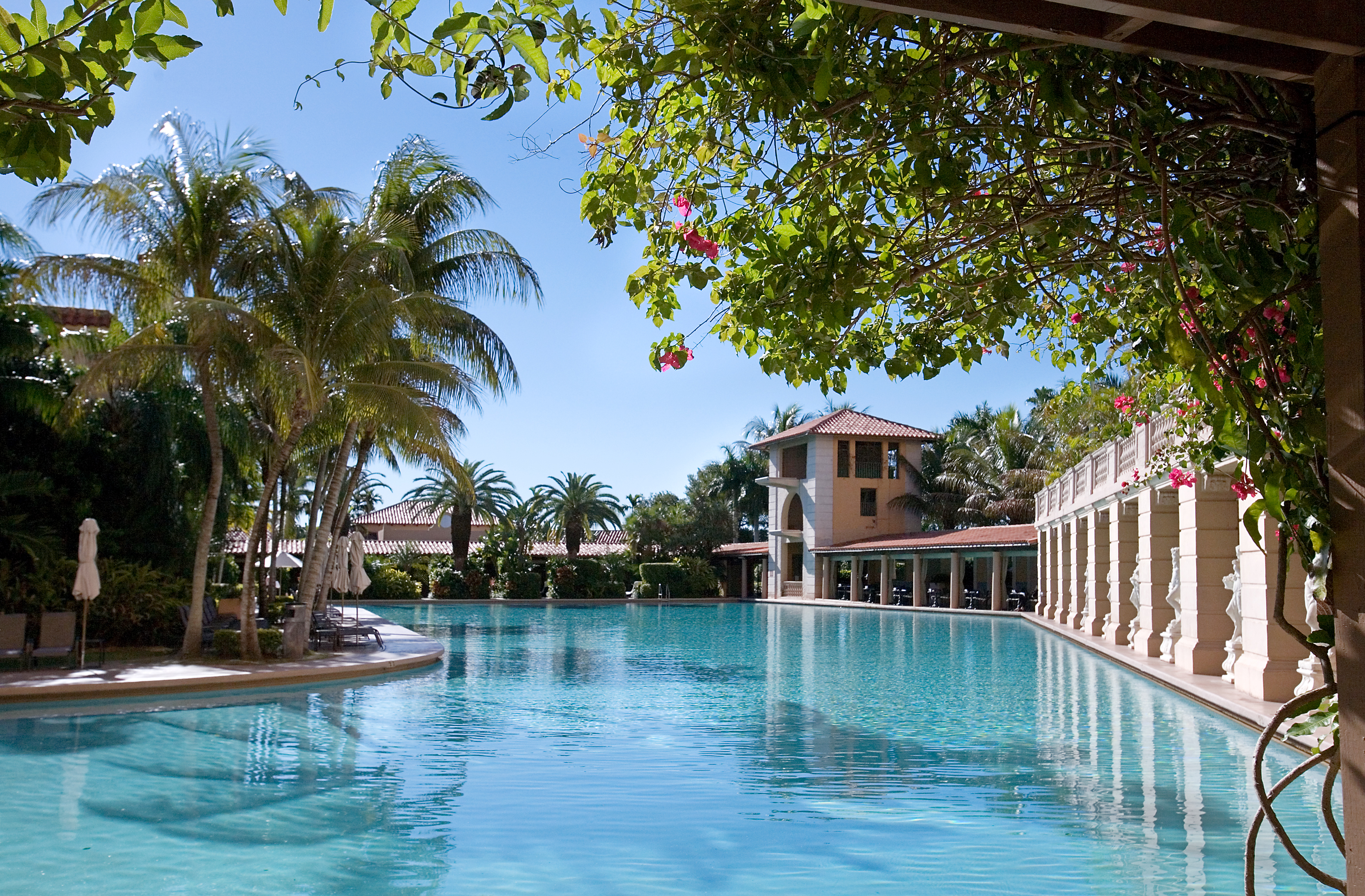 Swimming Pool — at the Biltmore Hotel at Coral Gables, Miami-Dade, Florida.